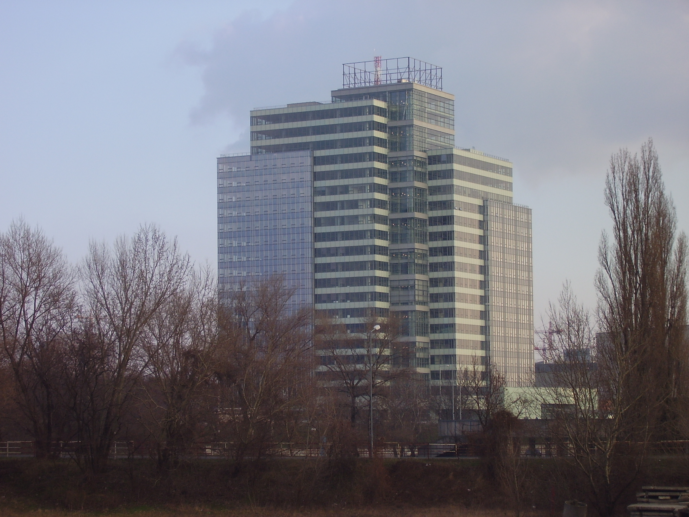 Finished Aupark Tower in 2008.